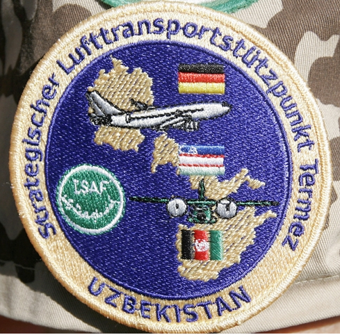 Internal coat of arms of the Bundeswehr (Armed Forces of the Federal Republic of Germany). → Remarks on naming and categorization scheme